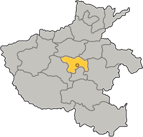 The prefecture-level city of Xuchang is highlighted on this map of Henan province, People's Republic of China.